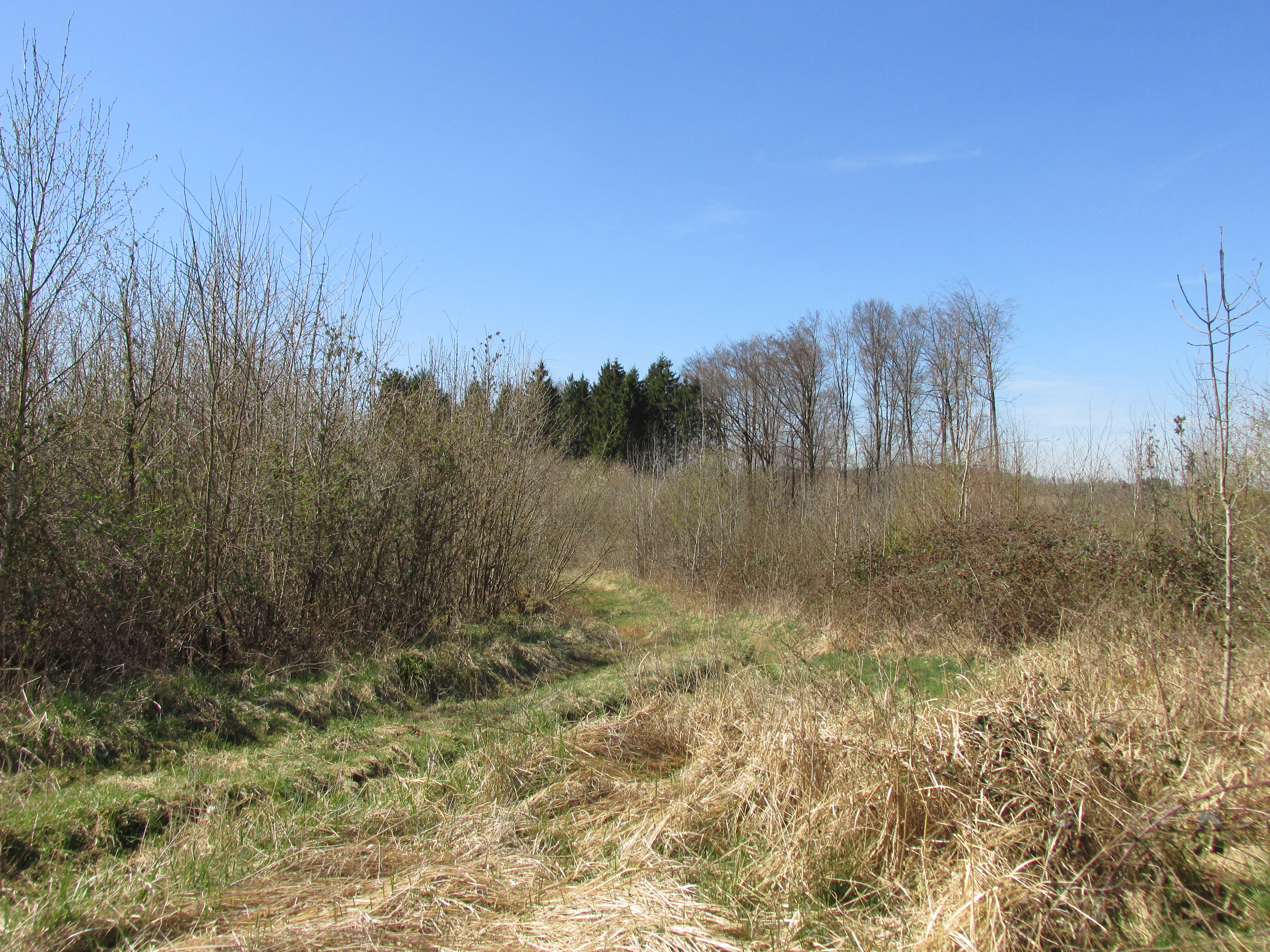 Nature reserve OE-040 Breiter Hagen, Attendorn, Germany check usage